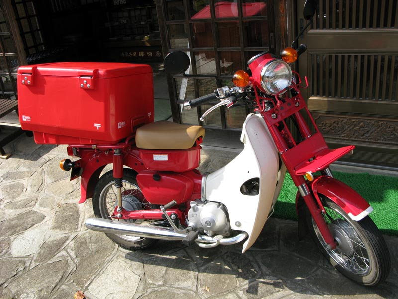 Honda SuperCub Japanese Postal Version